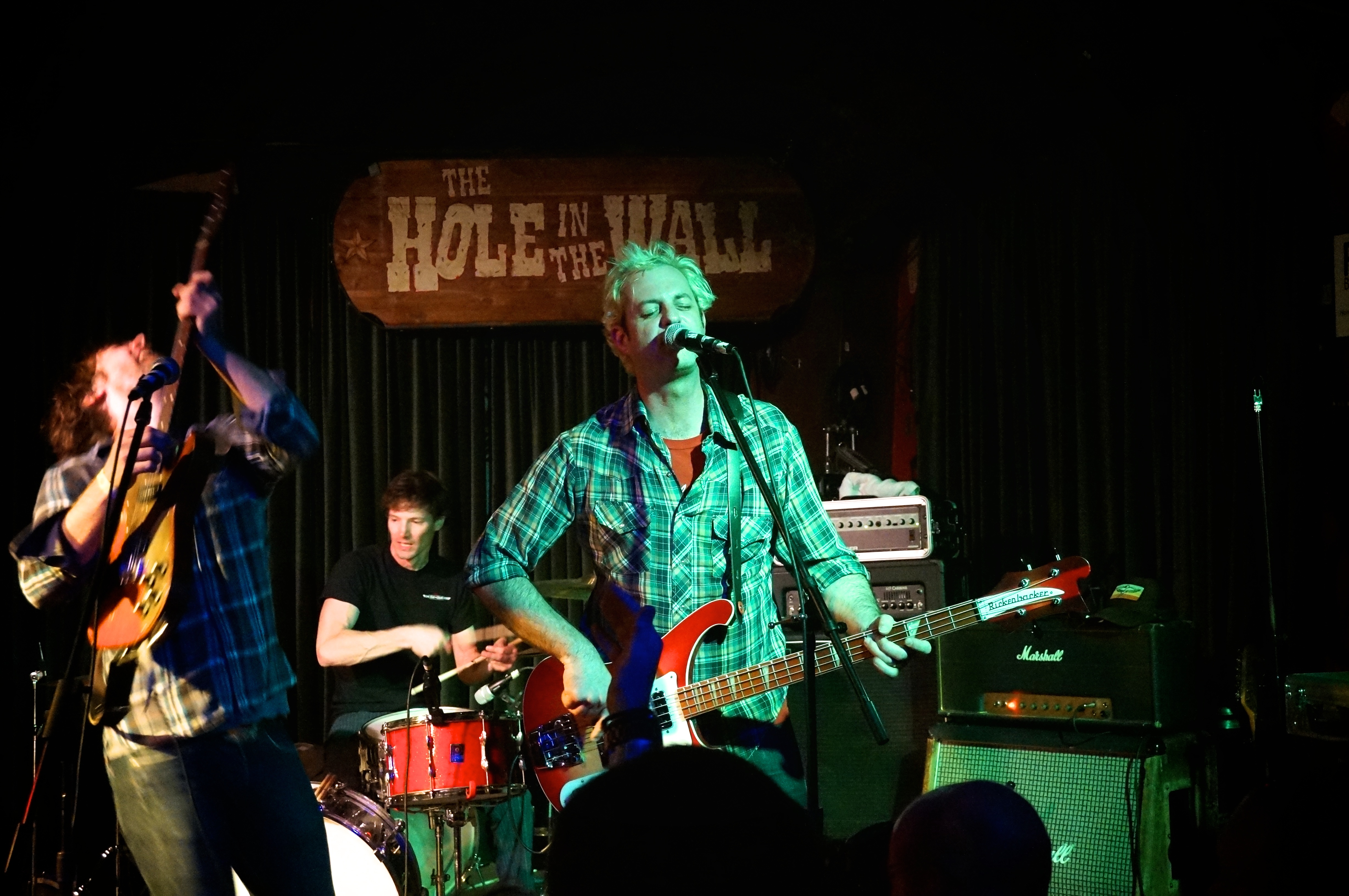 Grand Champeen at SXSW March 12, 2014